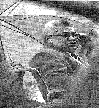 Historically significant to article "Taukei ni Waluvu"